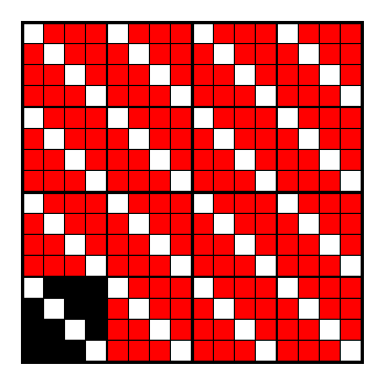 Twill weave pattern.